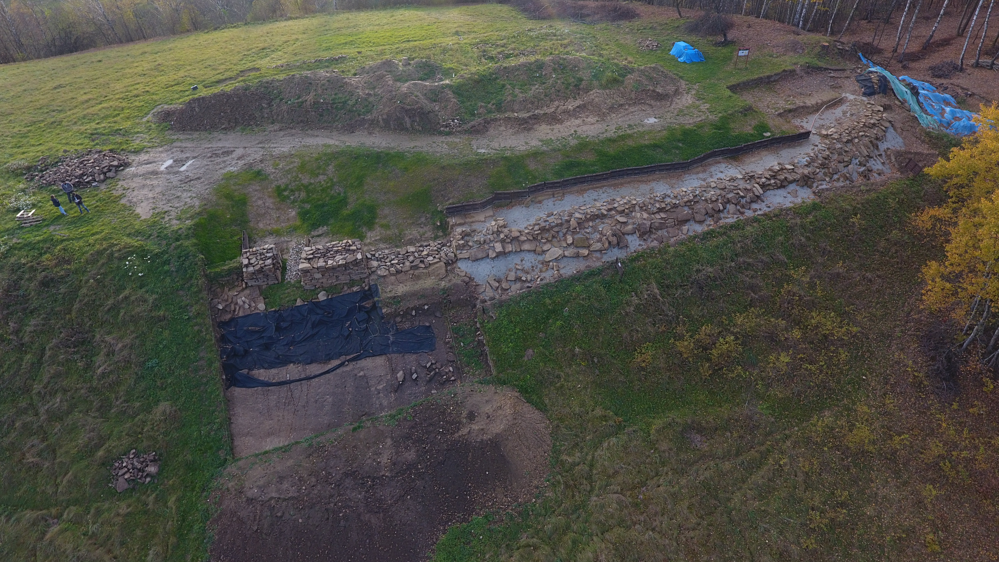 Archaeological site in Maszkowice (Western Carpathians) - excavation area with relics of the Early Bronze Age (ca. 1750 BC) stone wall reveled in 2016-2018 and the eastern gate (to the right) after restoration. October 2018.